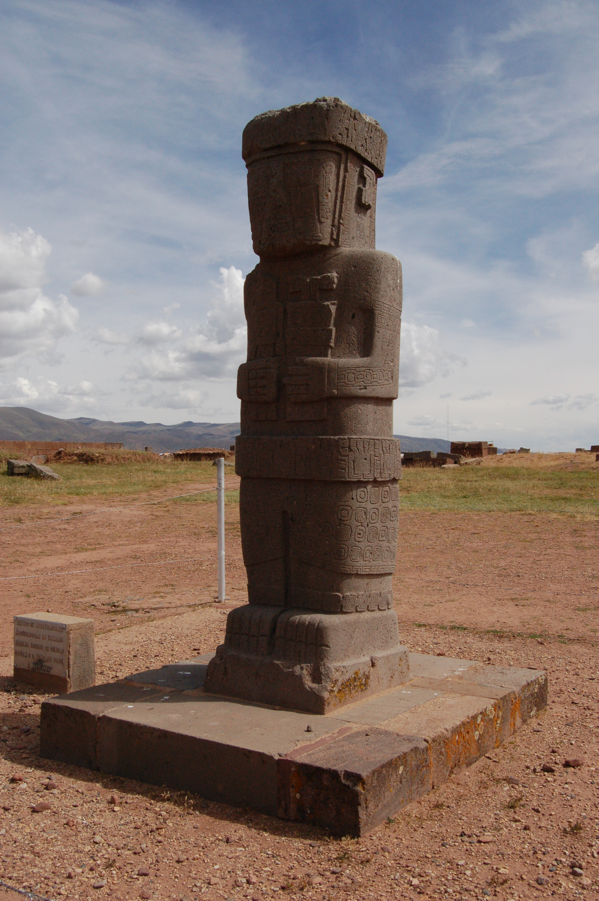 Godness of the Inca religion, found in Tiwanacu, Bolivia